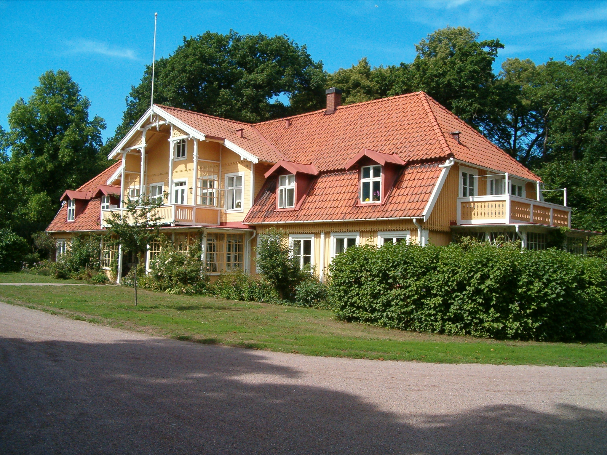 The Doctor's house at the Ramlösa mineral water spring in Helsingborg, Sweden.